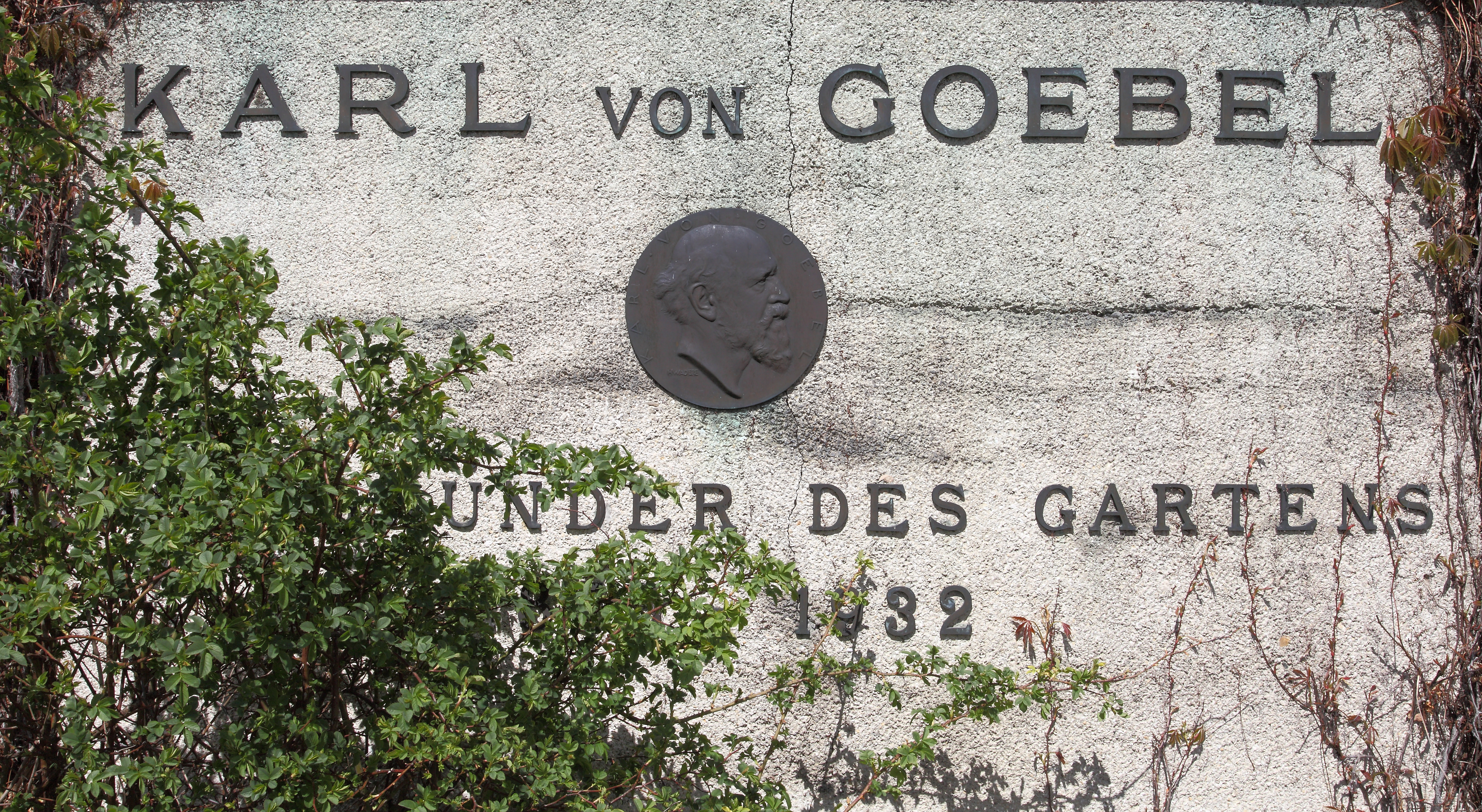 Plate in honor to Karl von Goebel, Botanic Garden, Munich, Germany